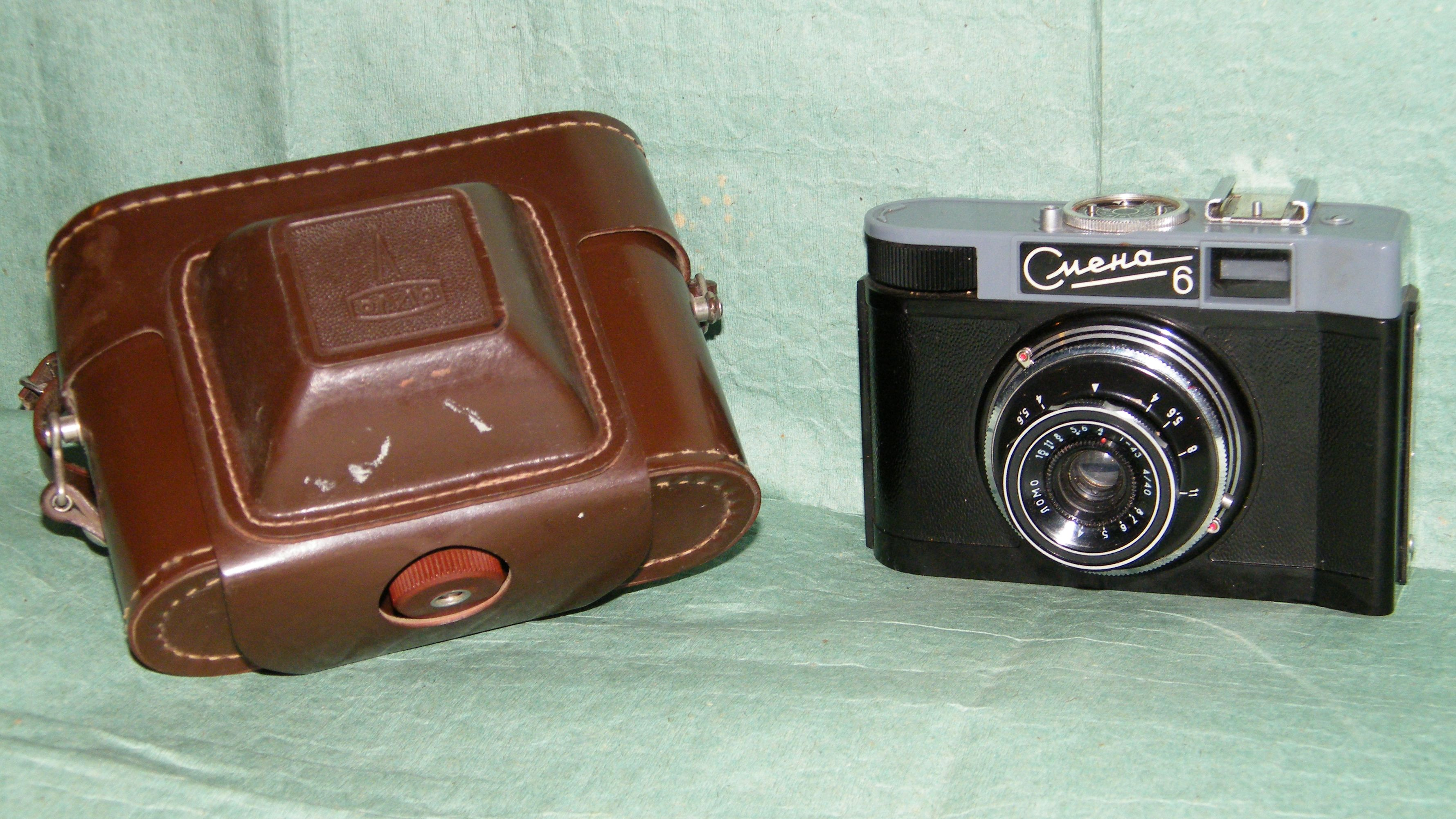 Smena 6